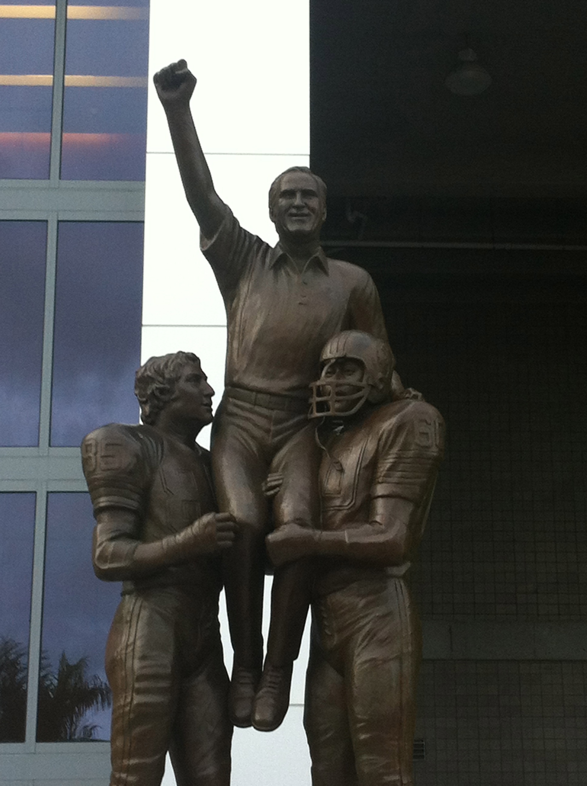 A statue of Don Shula outside of Sunlife Stadium